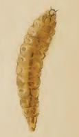 Stainton’s Natural History of the Tineina (1855–1873): Stigmella lonicerarum